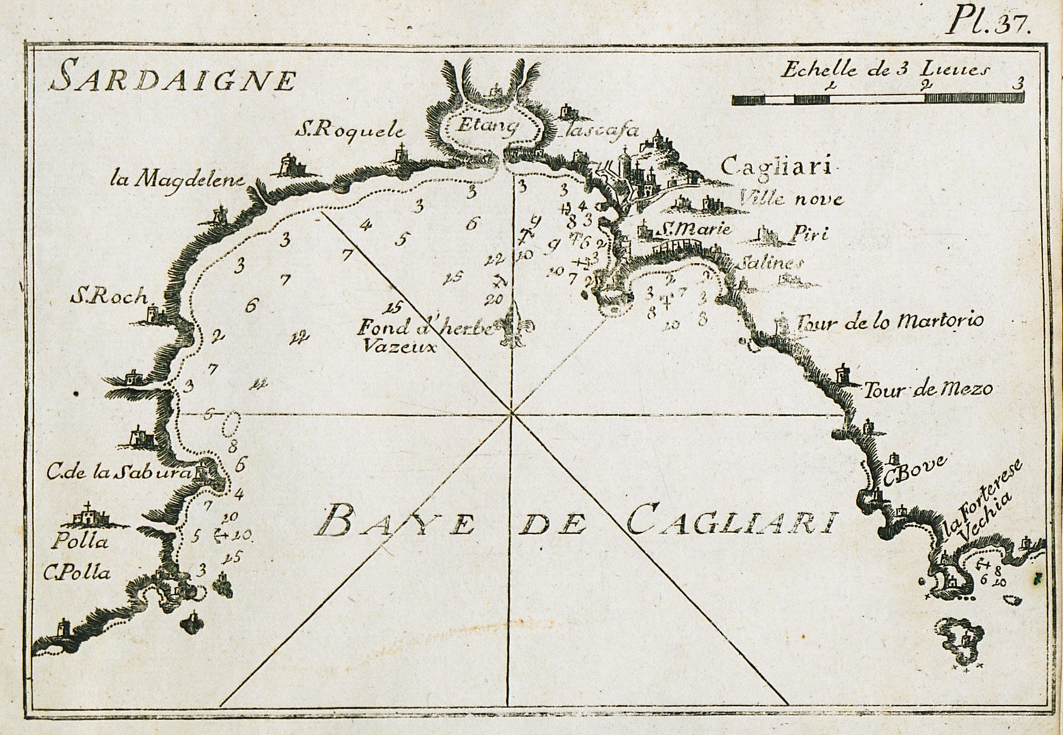 Recueil des principaux plans, des ports, et rades de la Méditerranée, chez Yves Gravier Libraire sous la Loge de Banchi, 1804